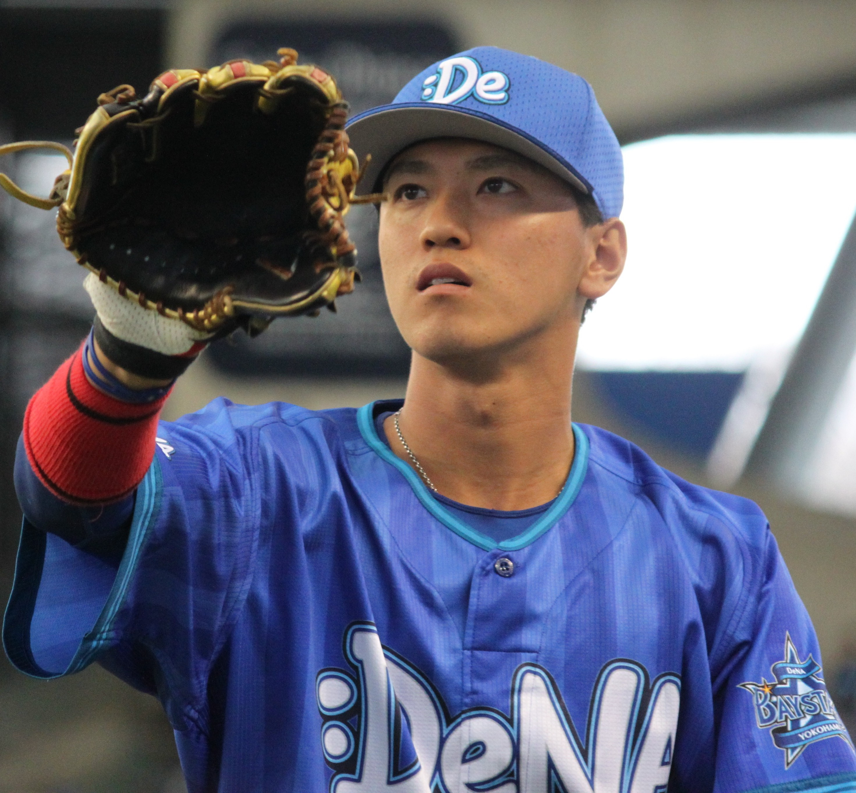 Taiki Sekine, outfielder of the Yokohama DeNA BayStars, at Seibu Dome